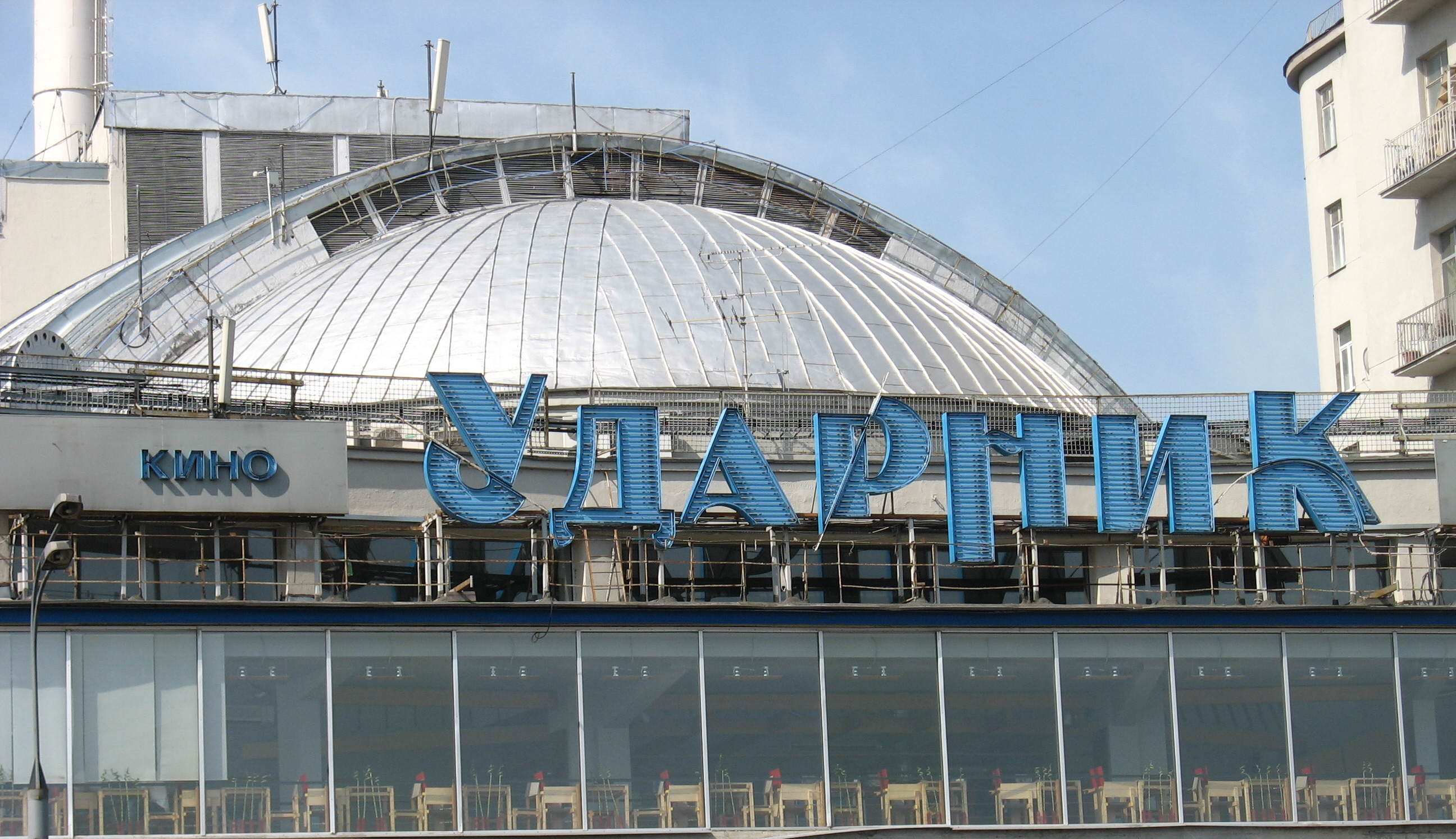 Cinema "Udarnik" in Moscow. Opened in 1931.